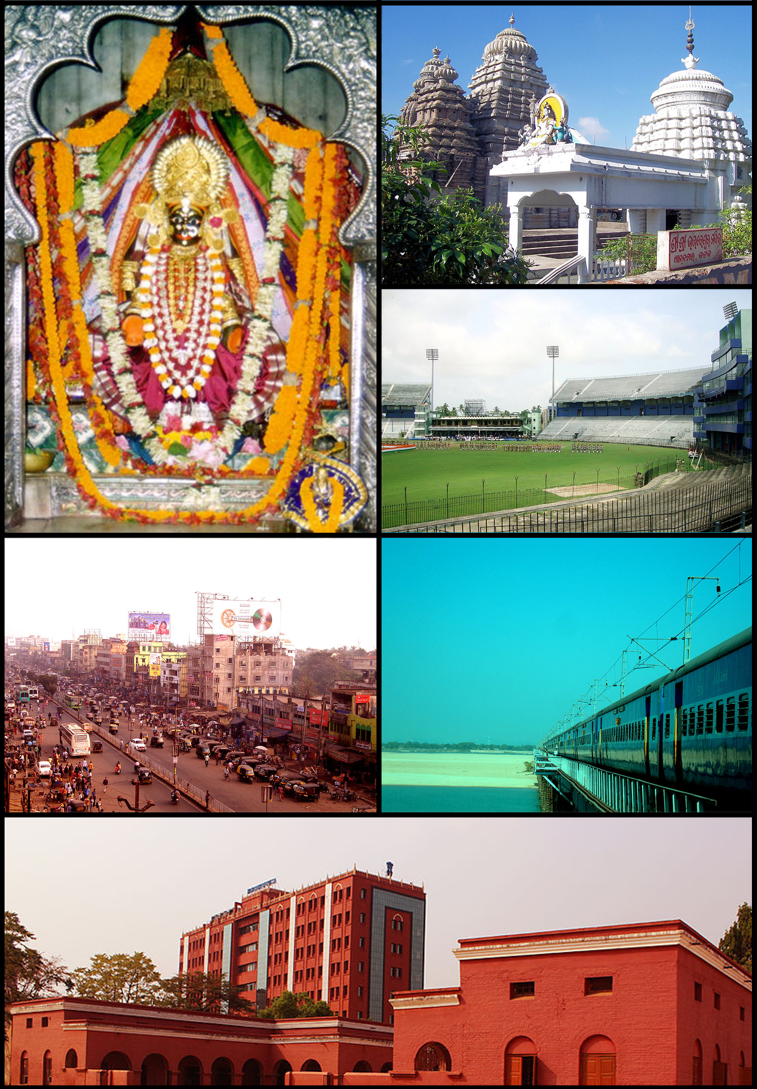 Cuttack Montage with Images from wikimedia commons